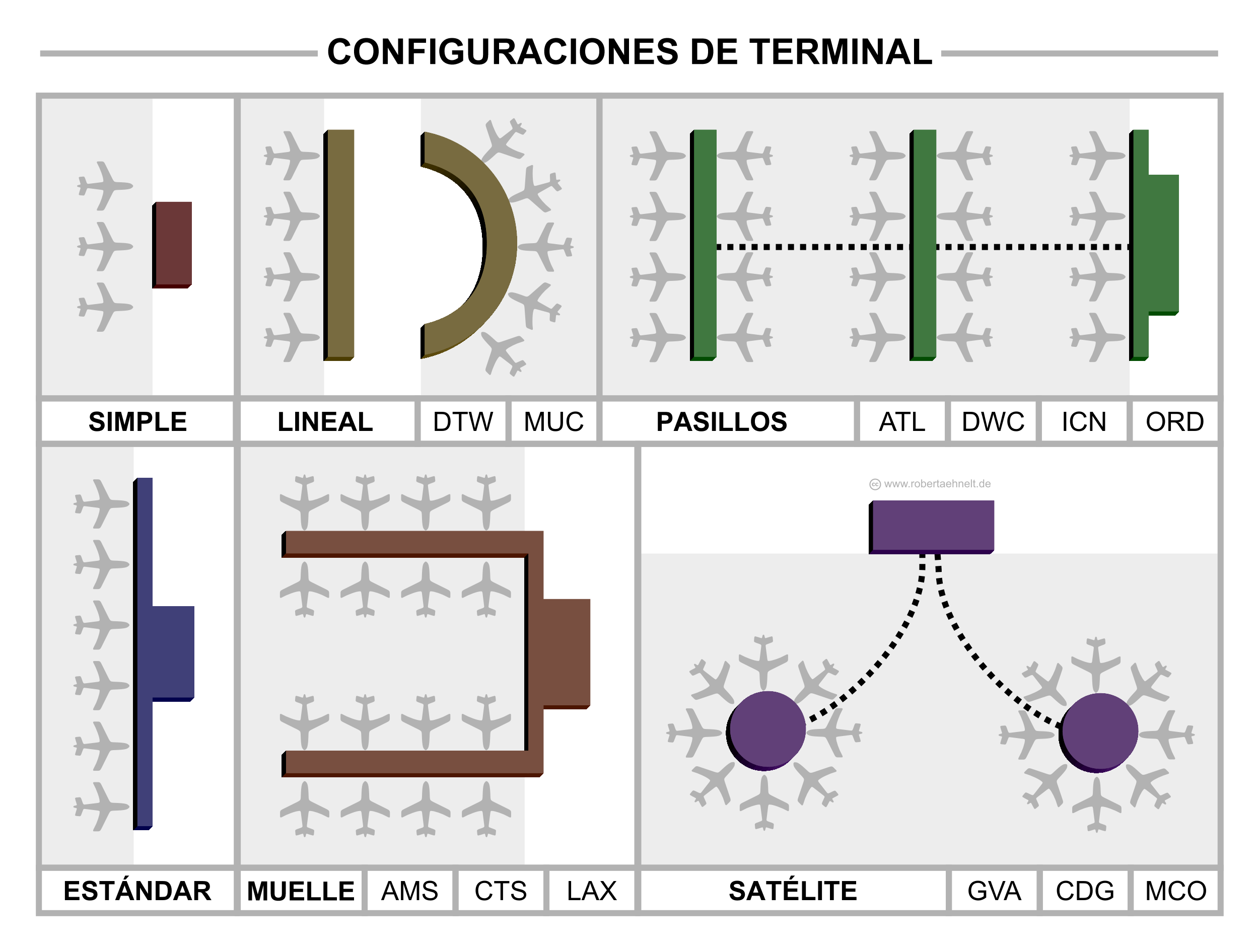 Airports: Typical Passengers-Terminal Configurations